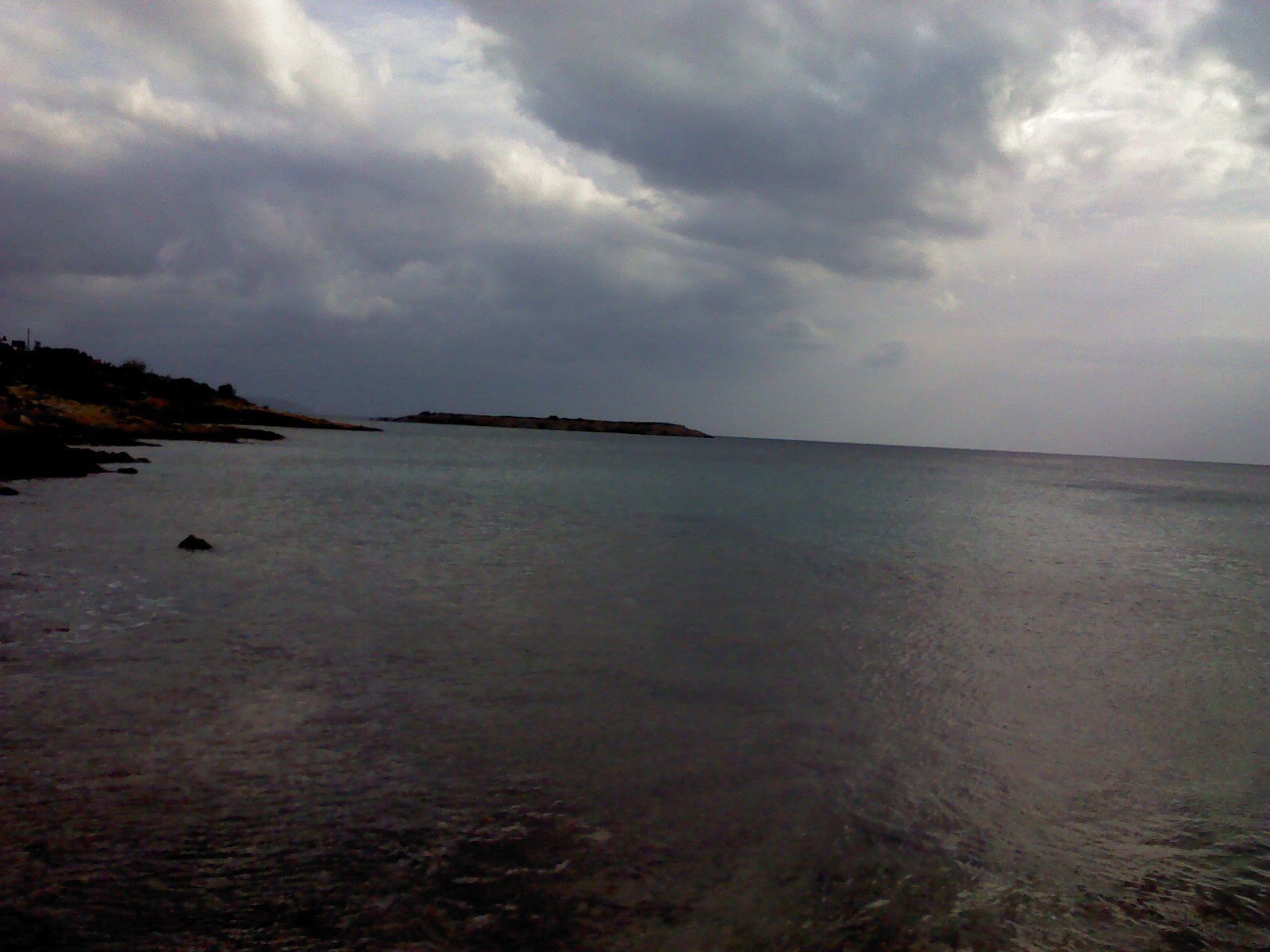 Island Ntouni